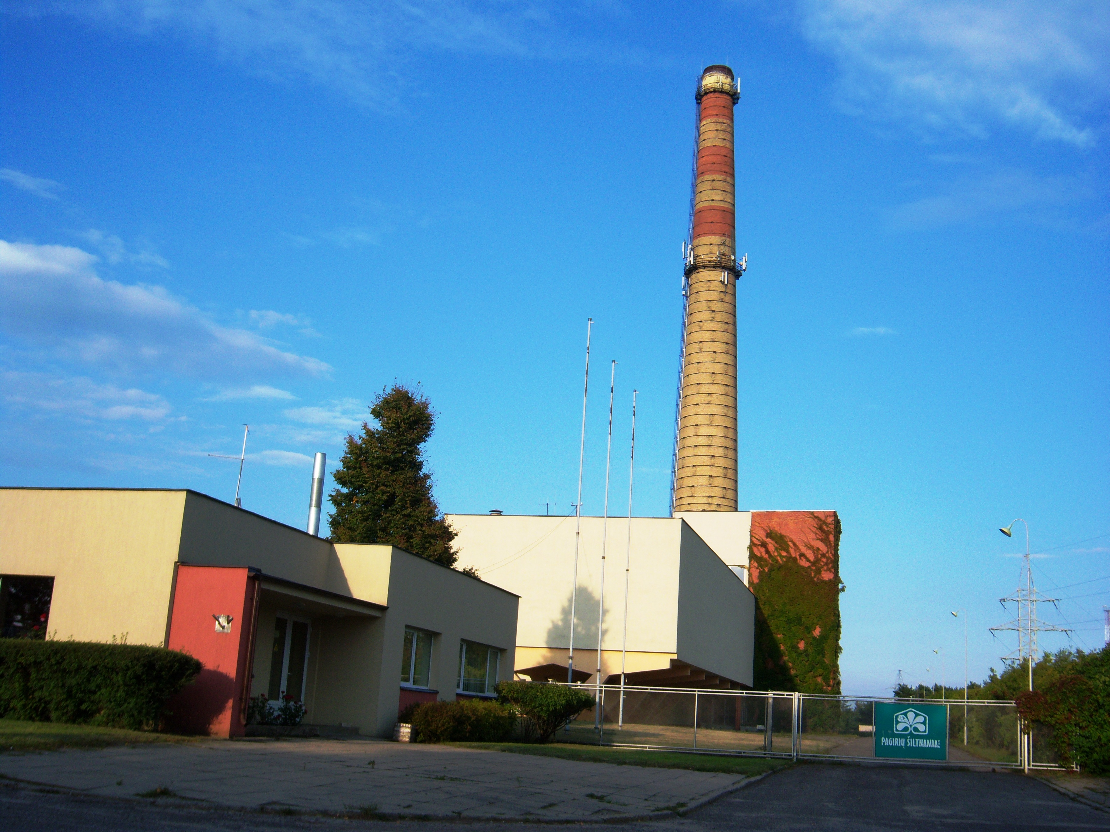 Greenhouse company in Pagiriai, Vilnius District, Lithuania